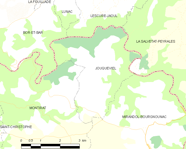 Map of French municipality Jouqueviel